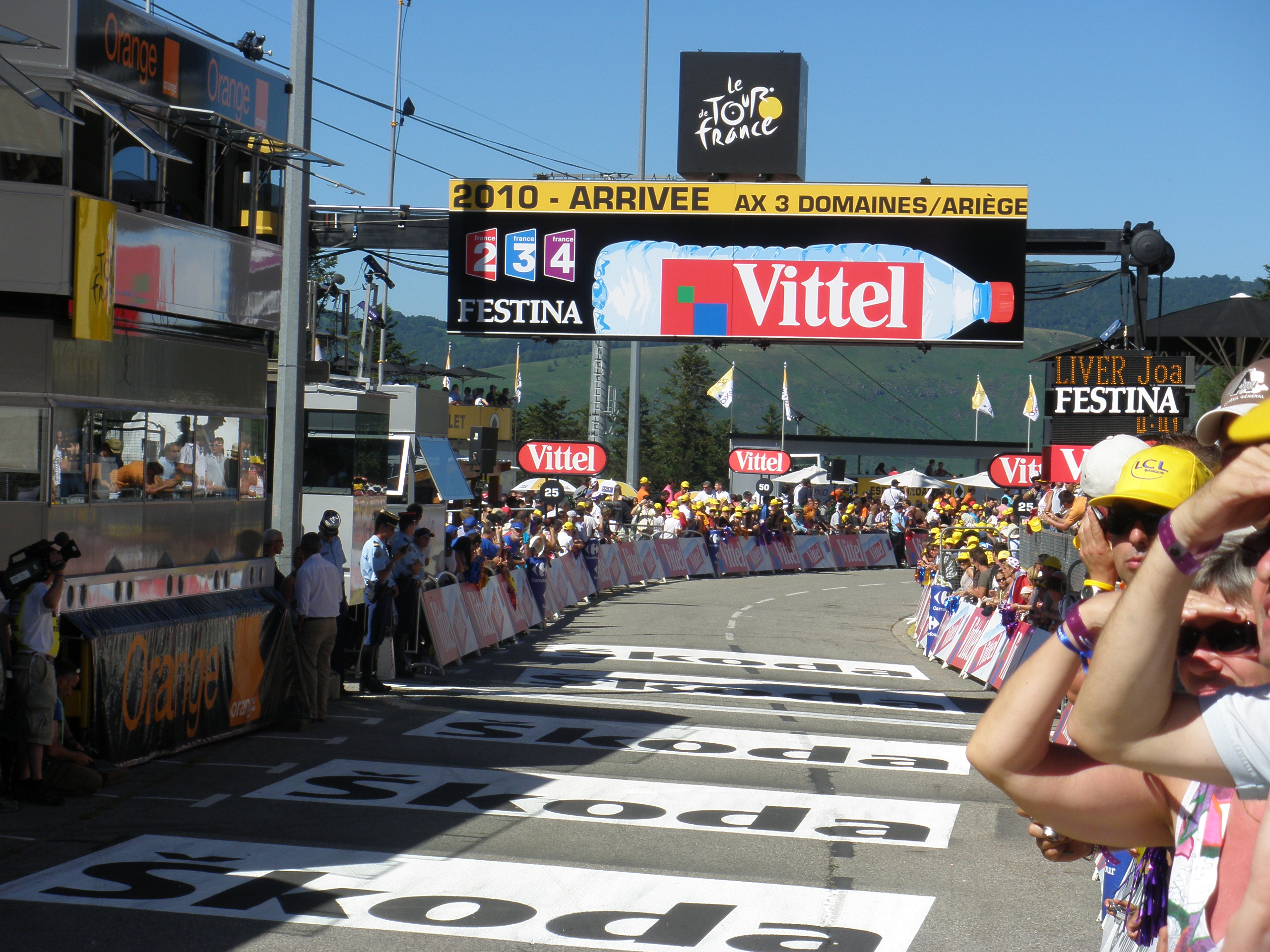 Finish line of stage 14 (Tour de France 2010) in Ax 3 Domaines.